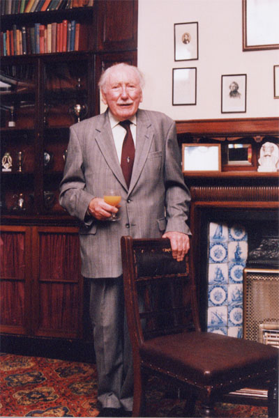 Photograph take by me in 2005